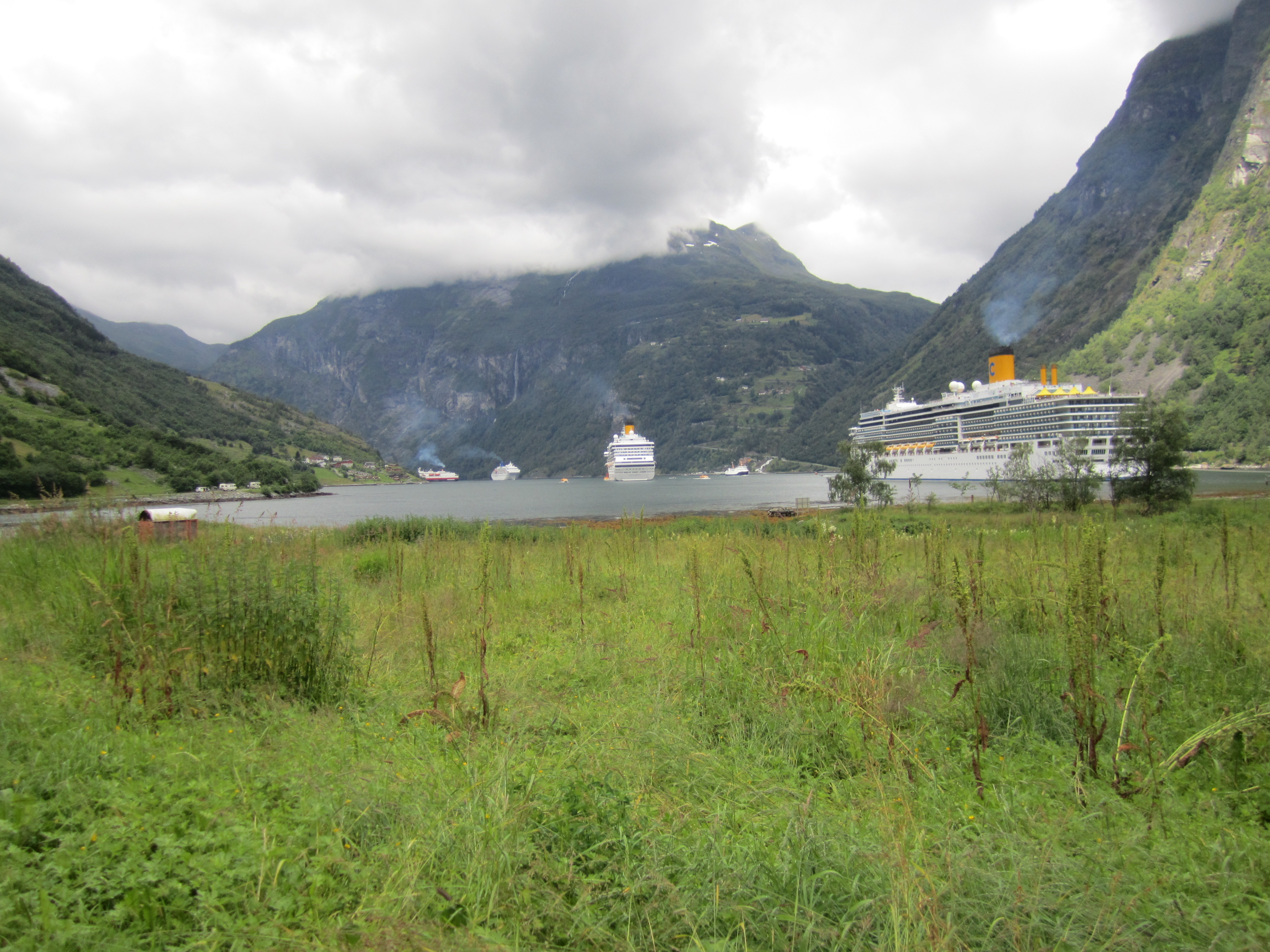 Cruise ships at Geiranger, Norway